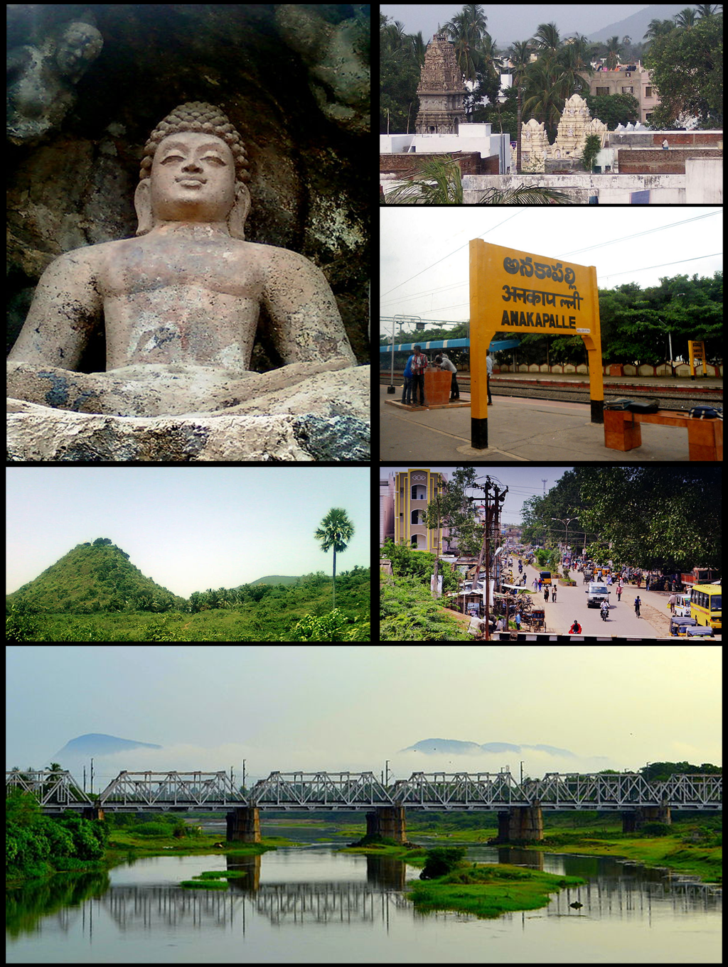 Montage of Anakapalle with Images from Wikimedia Commons